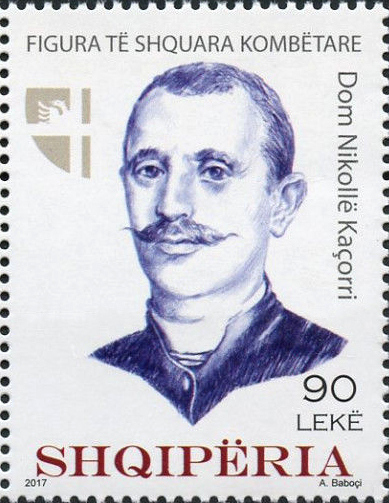 Distinguished National Personalities